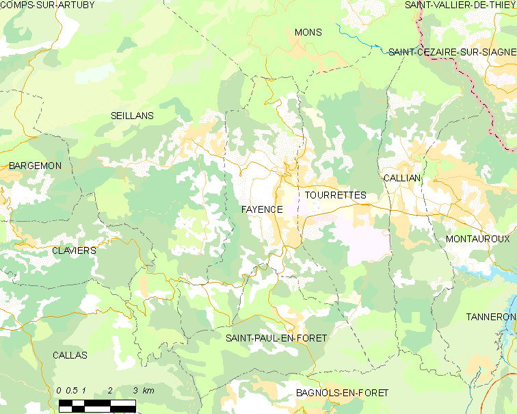 Map of French municipality Fayence